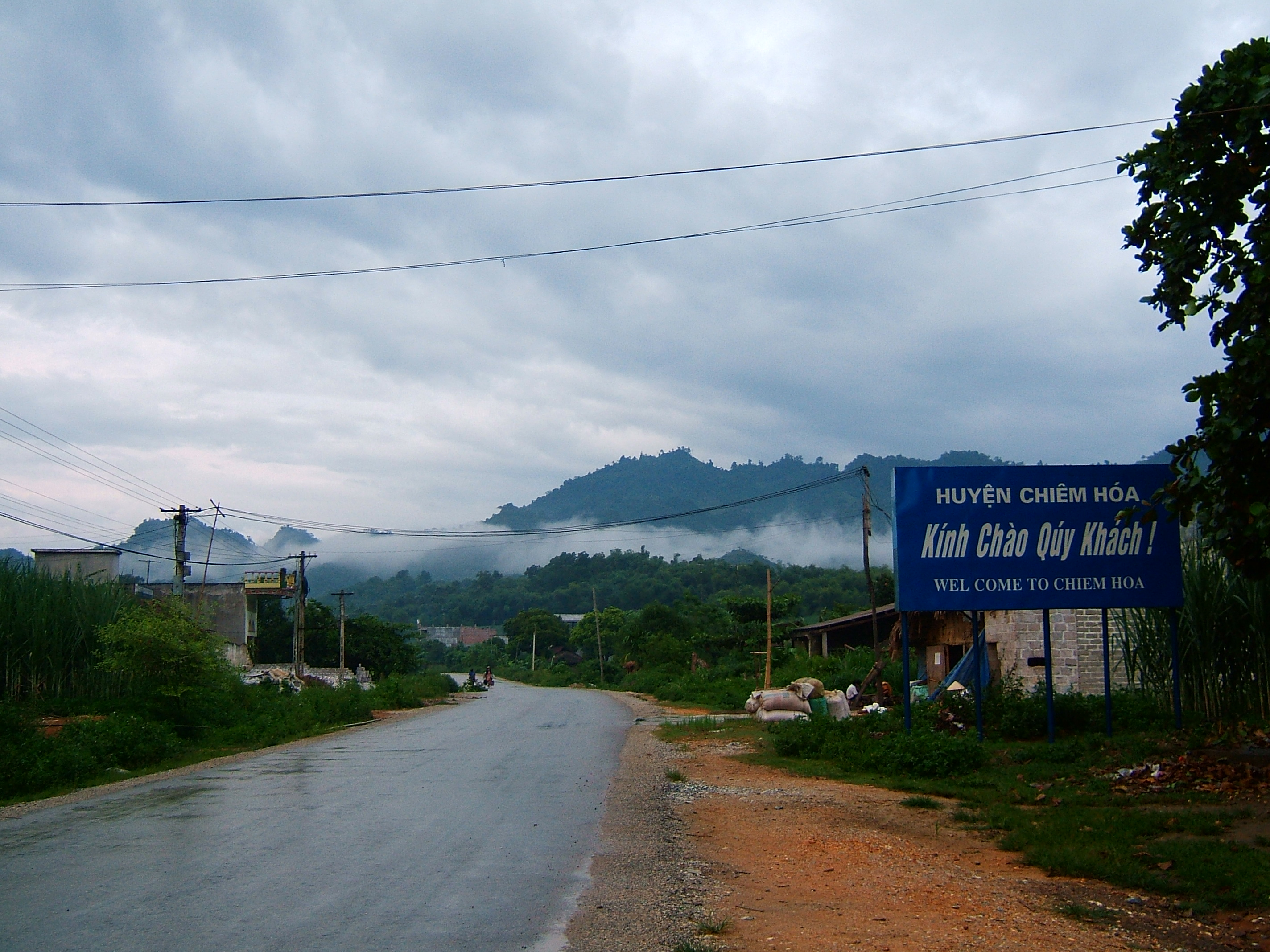 Chiem Hoa District, Tuyen Quang Province, North Vietnam